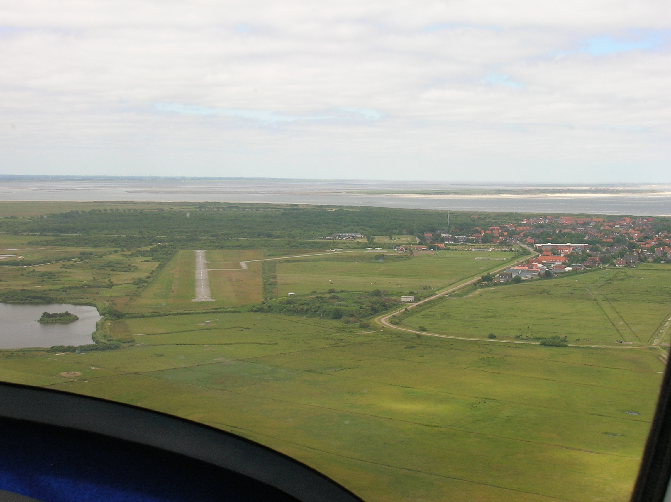 Langeoog Airport: Final runway 23